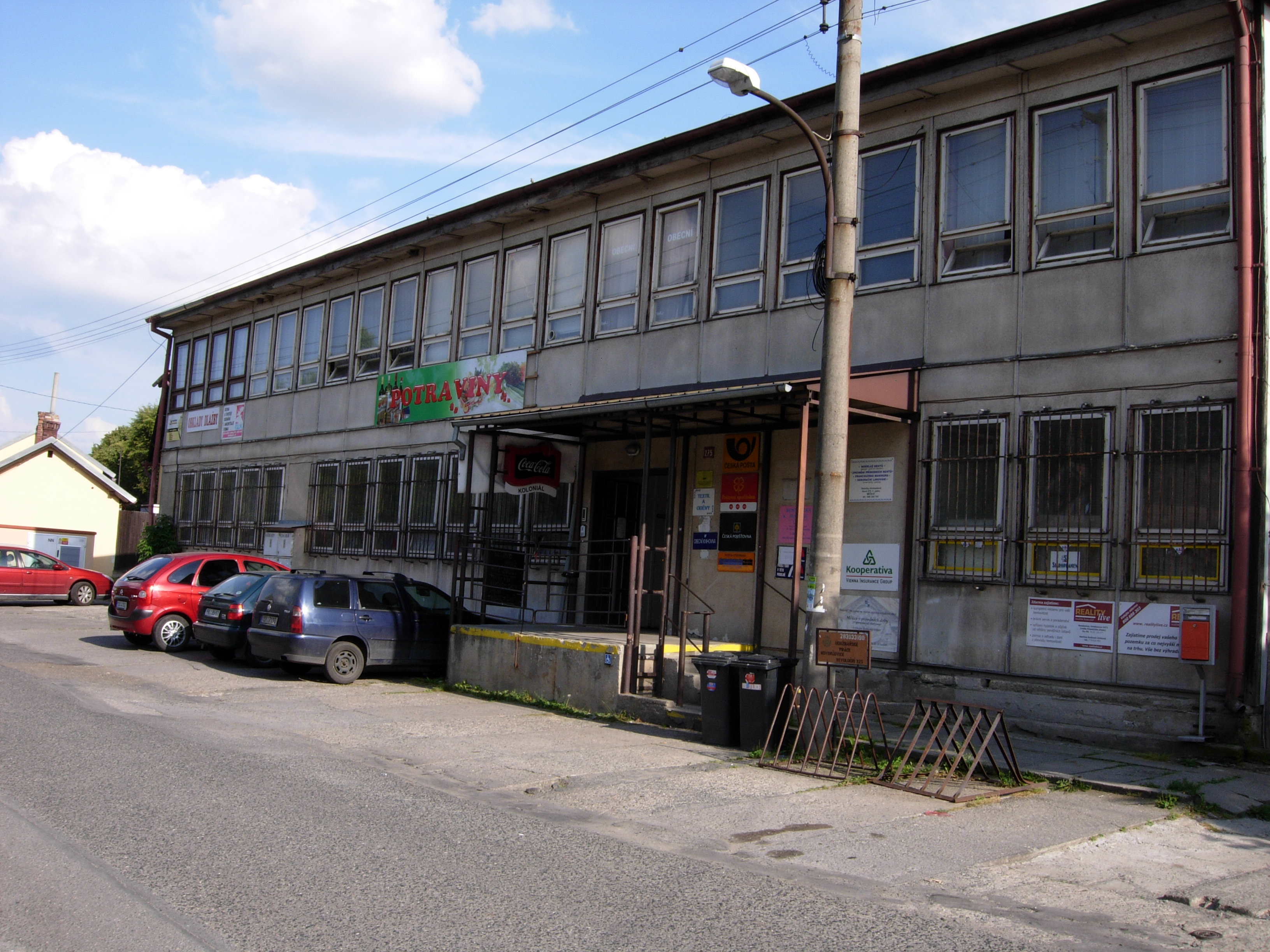 Post office in Měšice.